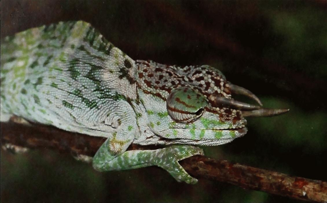 Bonn zoological bulletin - Trioceros oweni (male) Cut-out from original (Bonn zoological bulletin (2010) (19771641514).jpg) shown below